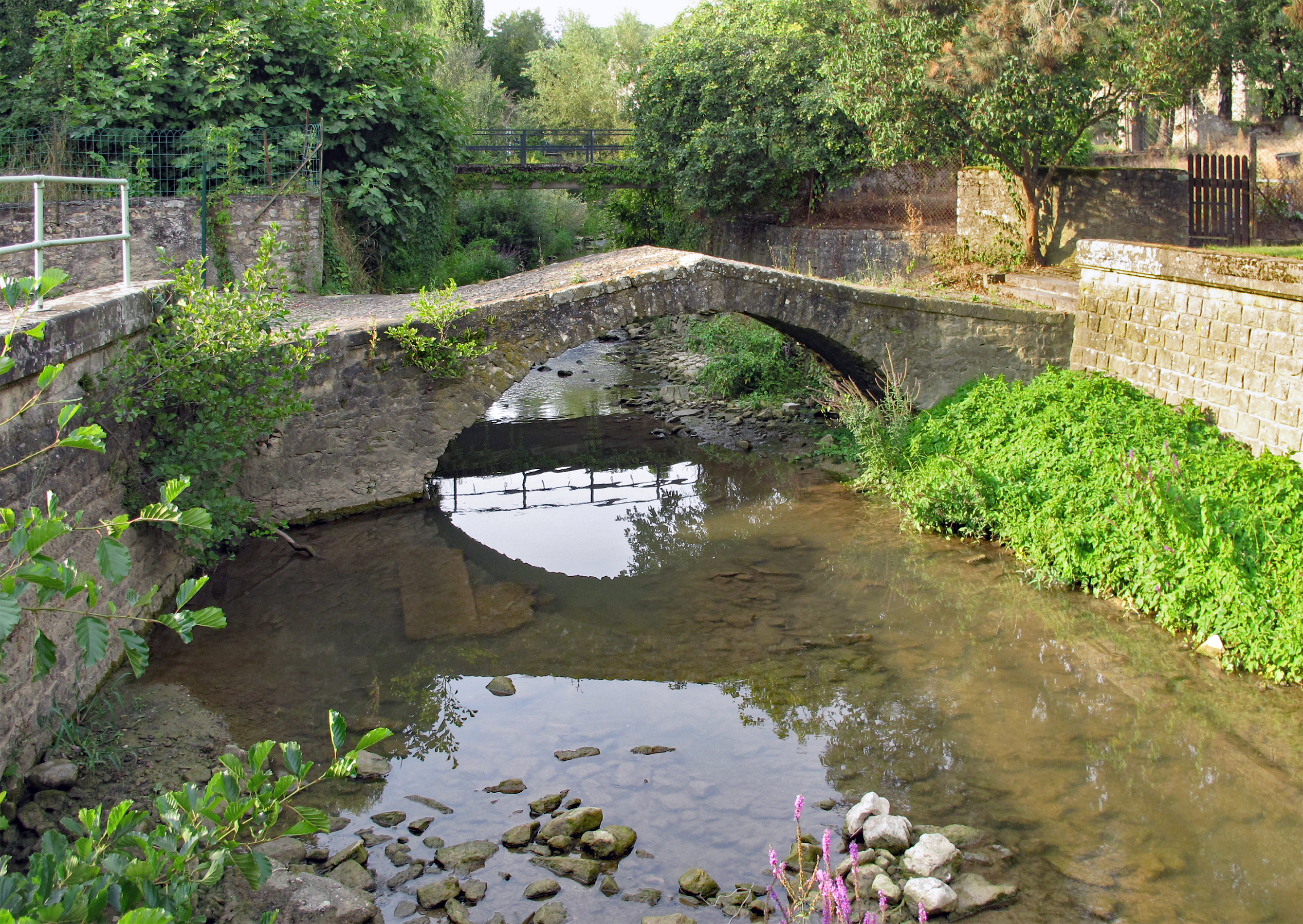 The so-called donkey bridge in Ehnen